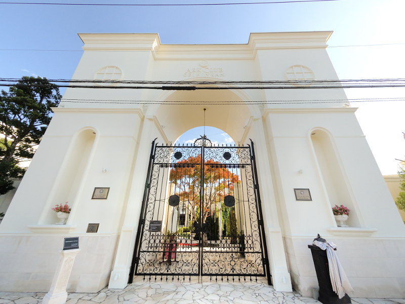 Ark Club Geihinkan Mito Building.jpg